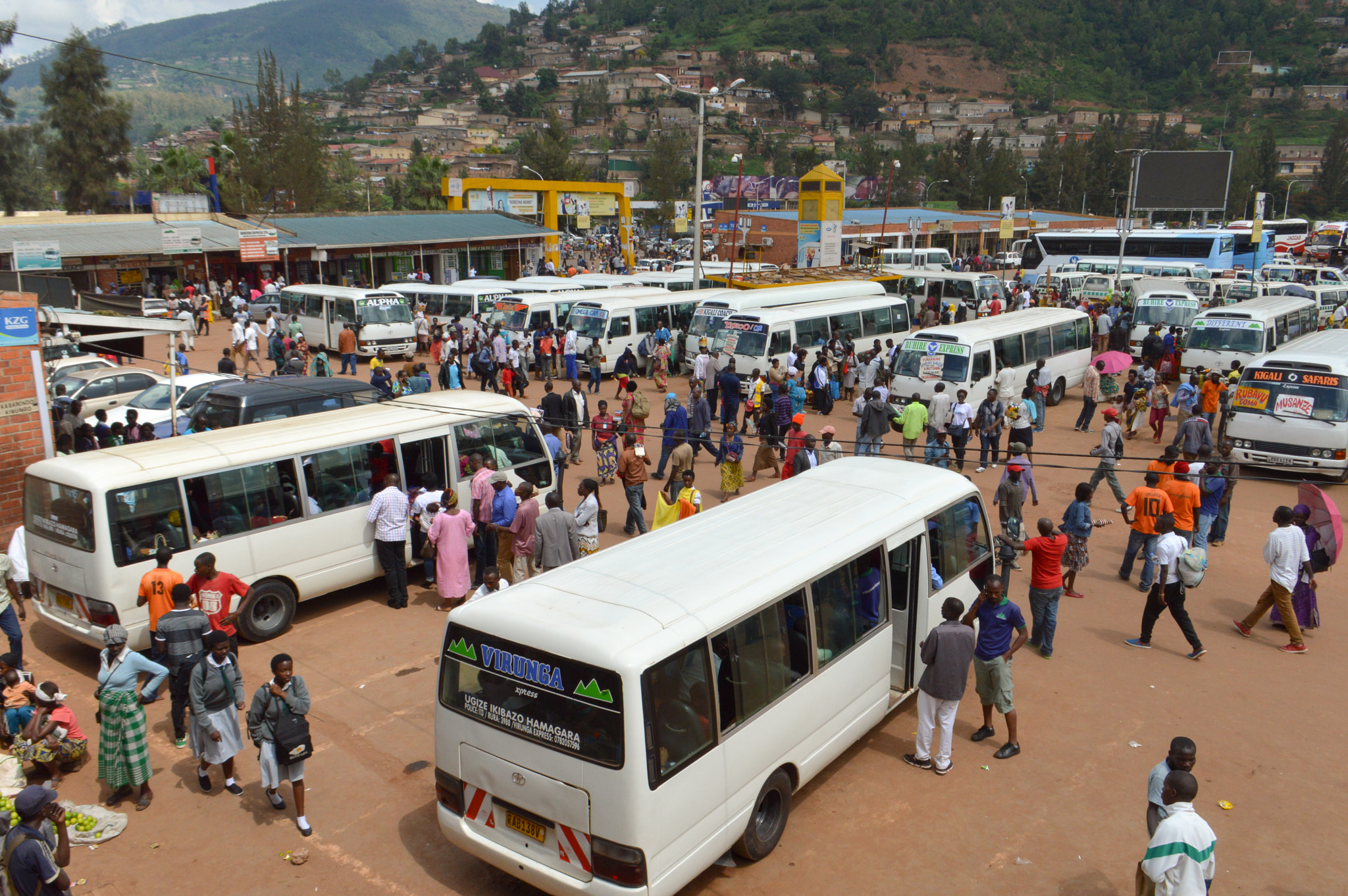 500px provided description: Nyabugogo Bus Station [#city ,#Africa ,#Kigali ,#Rwanda]